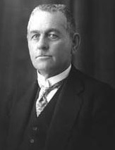 Mustafa Ulusan